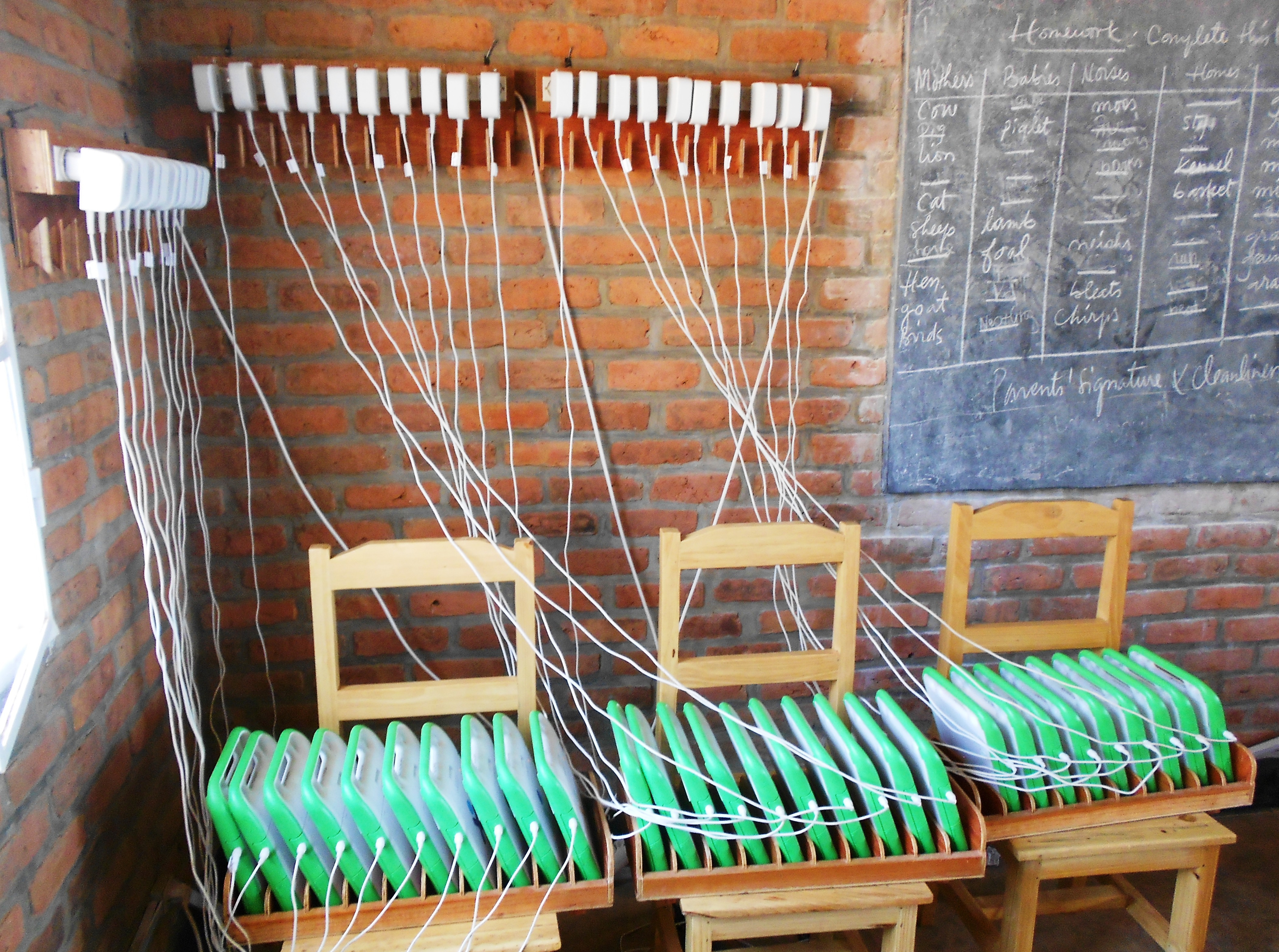 OLPC laptop charging racks (selfmade) in classroom